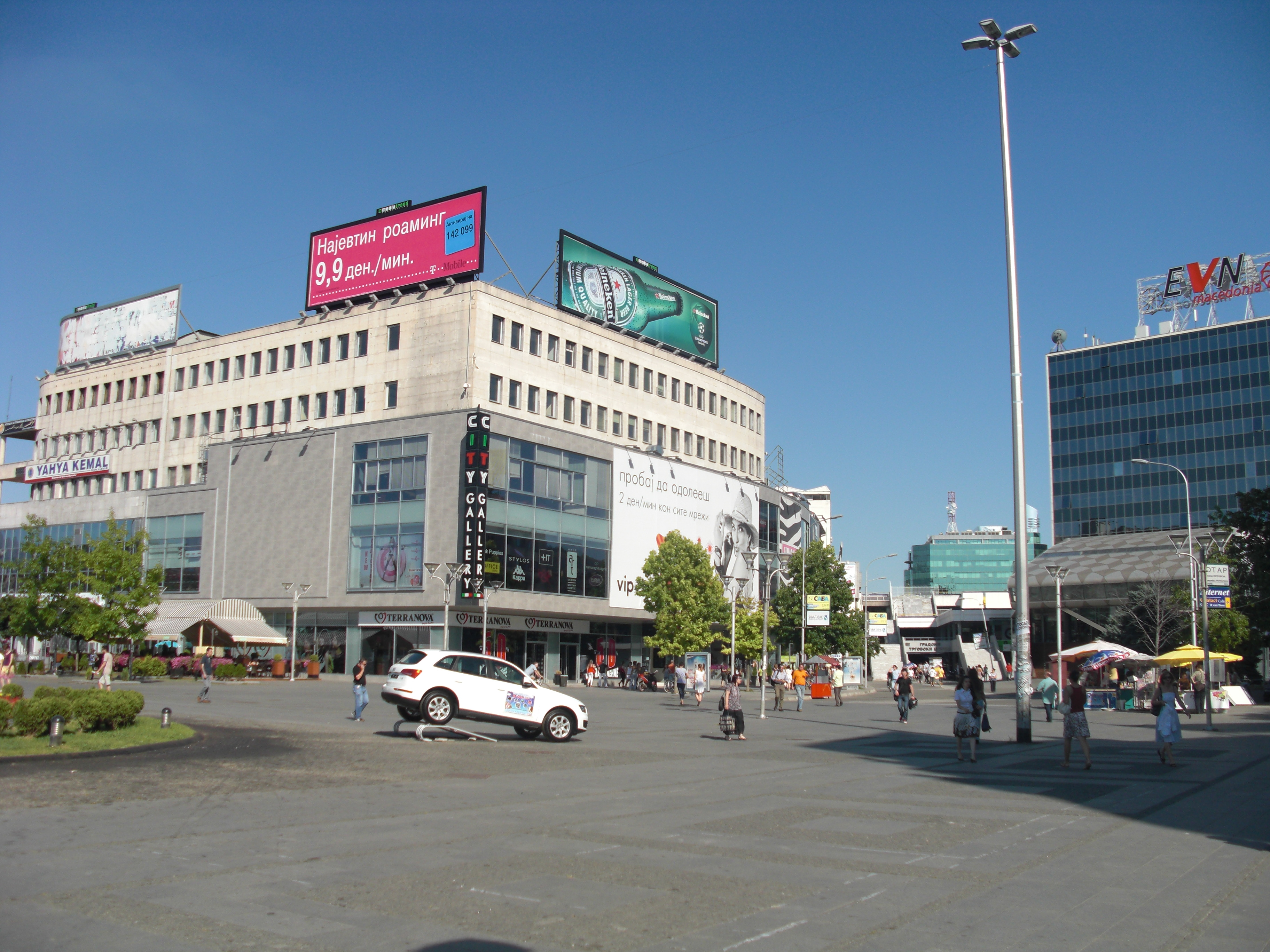 part of Macedonia square in Skopje, Macedonia